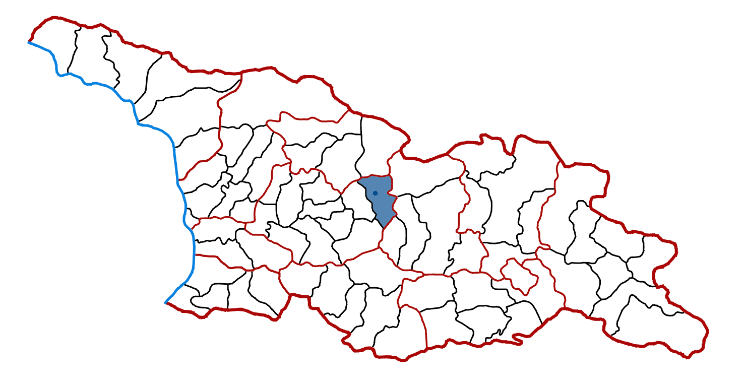 enLocation of Sachkhere district in georgia